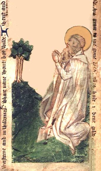 Illuminated manuscript, illustration of St Godric kneeling in prayer with rosary (undisplayed upper portion shows Virgin and Child, teaching Godric her song)